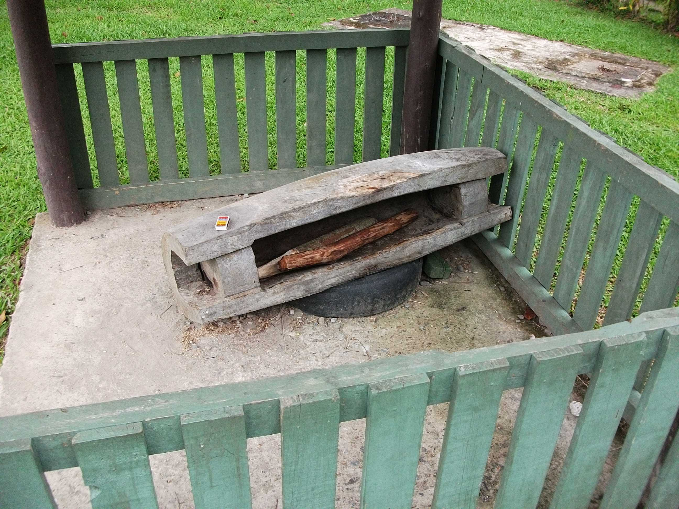 A traditional, well-used Fijian lali (wooden drum), although the old tyre underneath is possibly less traditional. Photo taken in Suva, Viti Levu, Fiji Islands. Matchbox placed on the lali to indicate size.